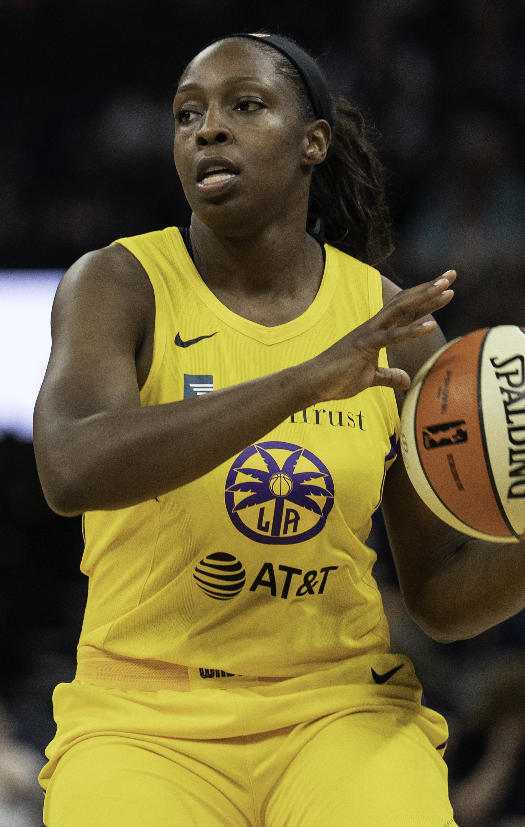 Chelsea Gray of the Los Angeles Sparks